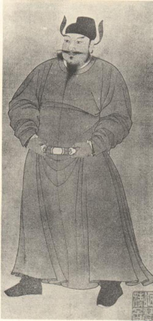 Li Keyong